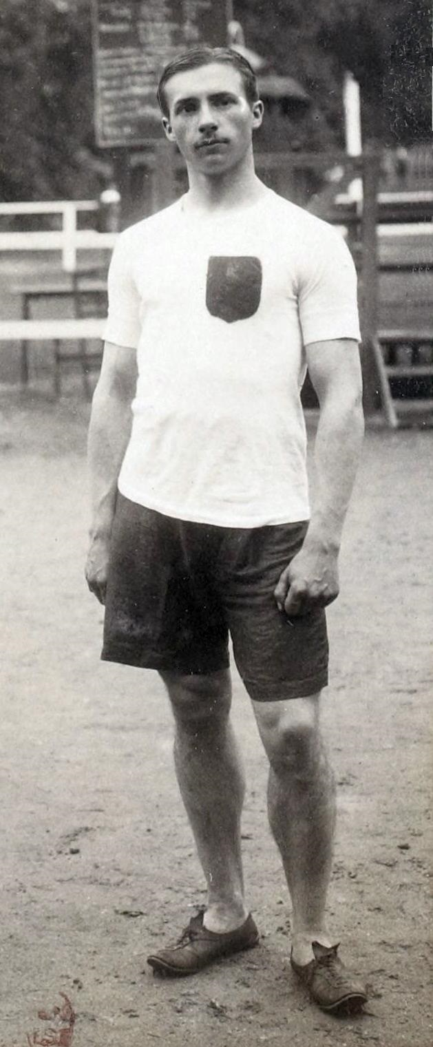 [Collection Jules Beau. Photographie sportive] : T. 7. Année 1898 / Jules Beau : F. 20v. Racing-club de France, 19 juin 1898 ; G. Wood ; Bouvalot ; Championnats nationaux, 26 juin 1898 ; Jugelet ; Tauzin ; Max Kurtz, Charles Robert ; Gontier; Charles Robert, champion de France du 100 mètres en 1898.